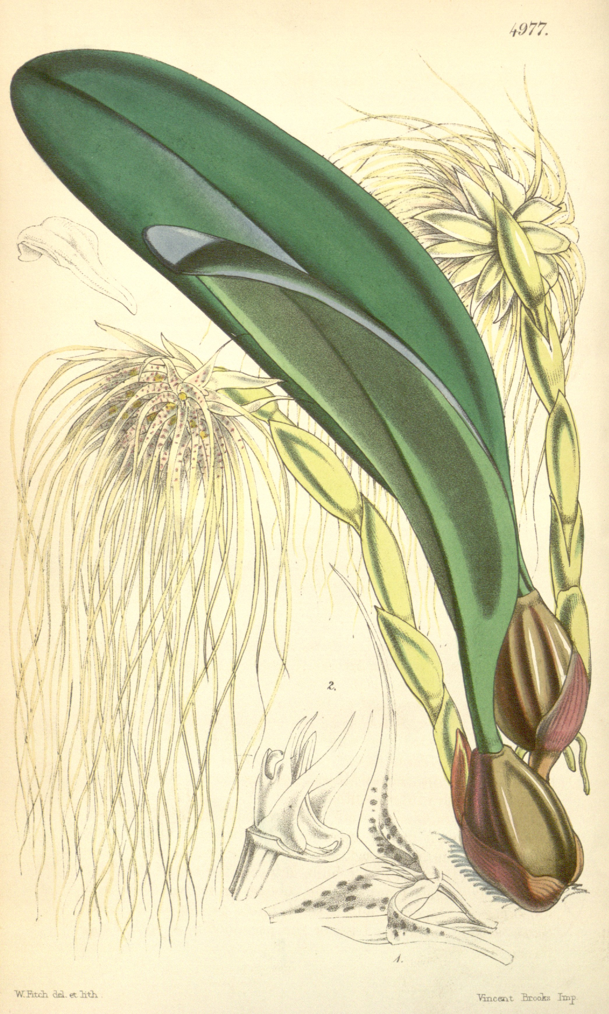 Illustration of Bulbophyllum medusae (as syn. Cirrhopetalum medusae)